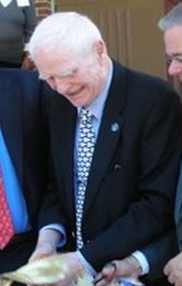 Brendan Byrne